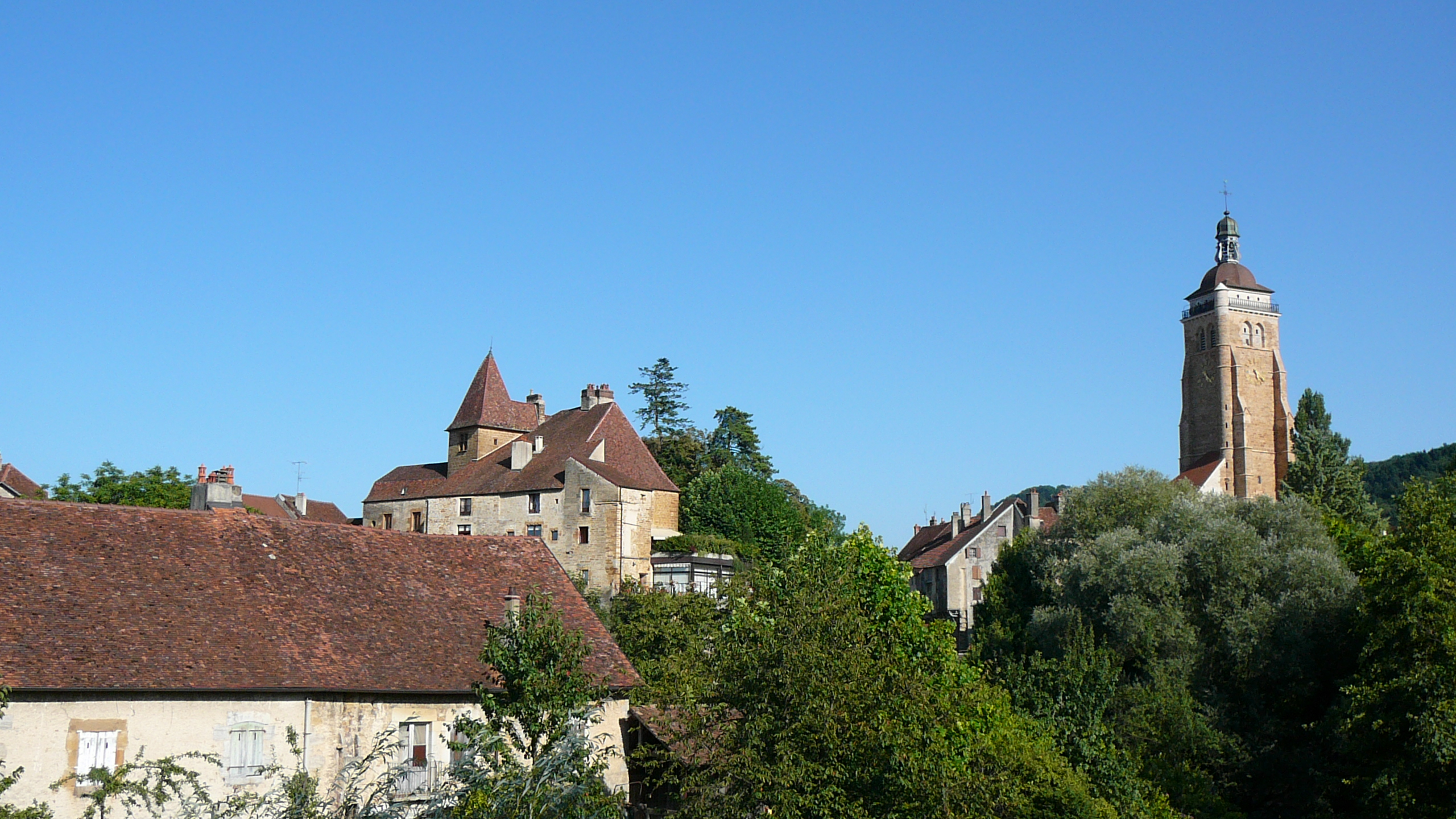 Bontemps castle and Saint-Just church of Arbois, France.